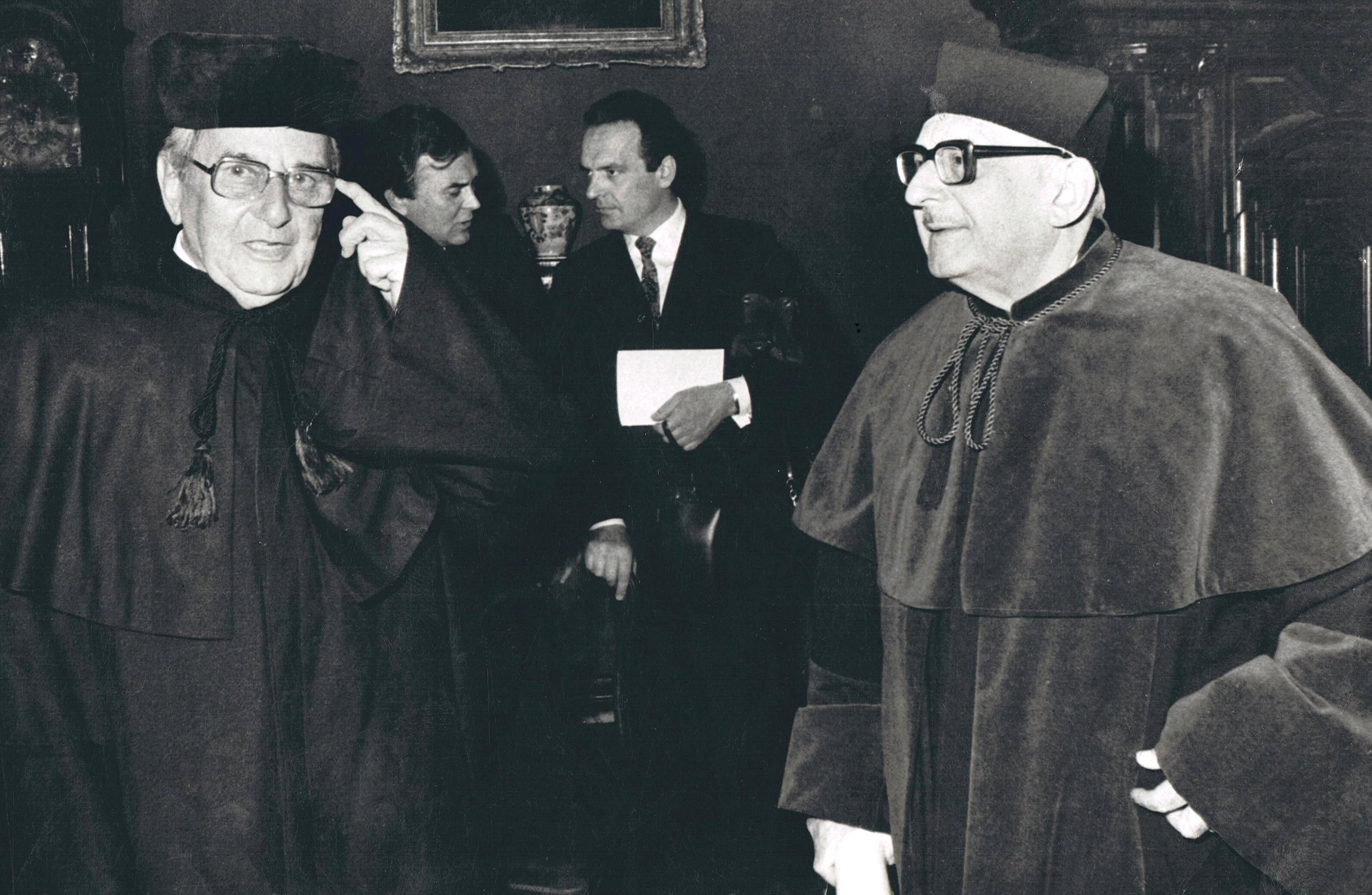 dr. Julian Godlewski & prof. Jerzy Szablowski (1981)